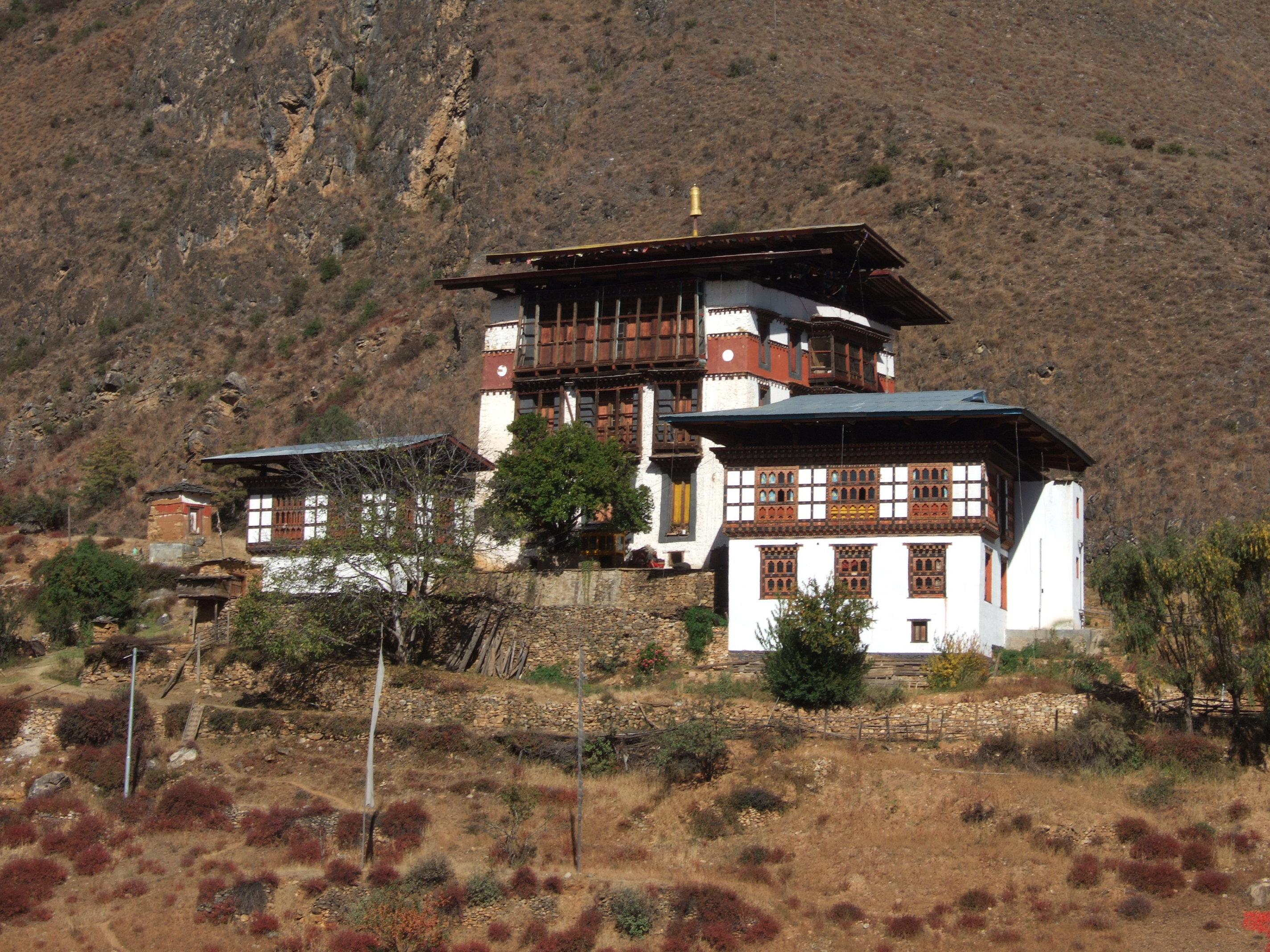 Tachog Temple (རྟ་མཆོག་ལྷ་ཁང་), Dokar Gewog, Paro District, Bhutan. Established by Tangtong Gyalpo (14th Century)